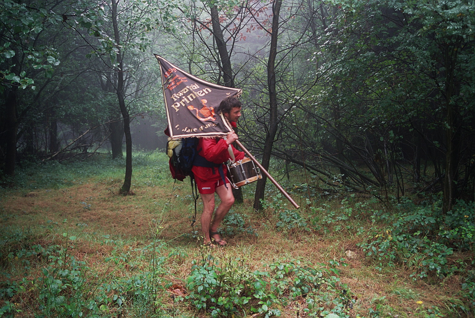 LE GRAND'TOUR photos 09